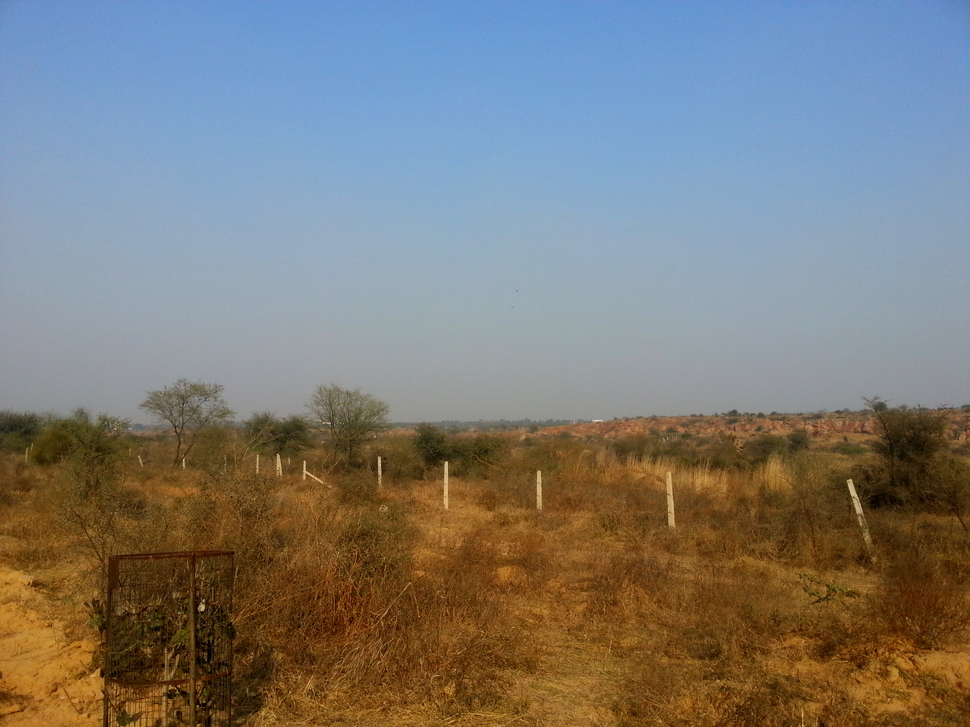 Aravali Biodiversity Park, Gurgaon.